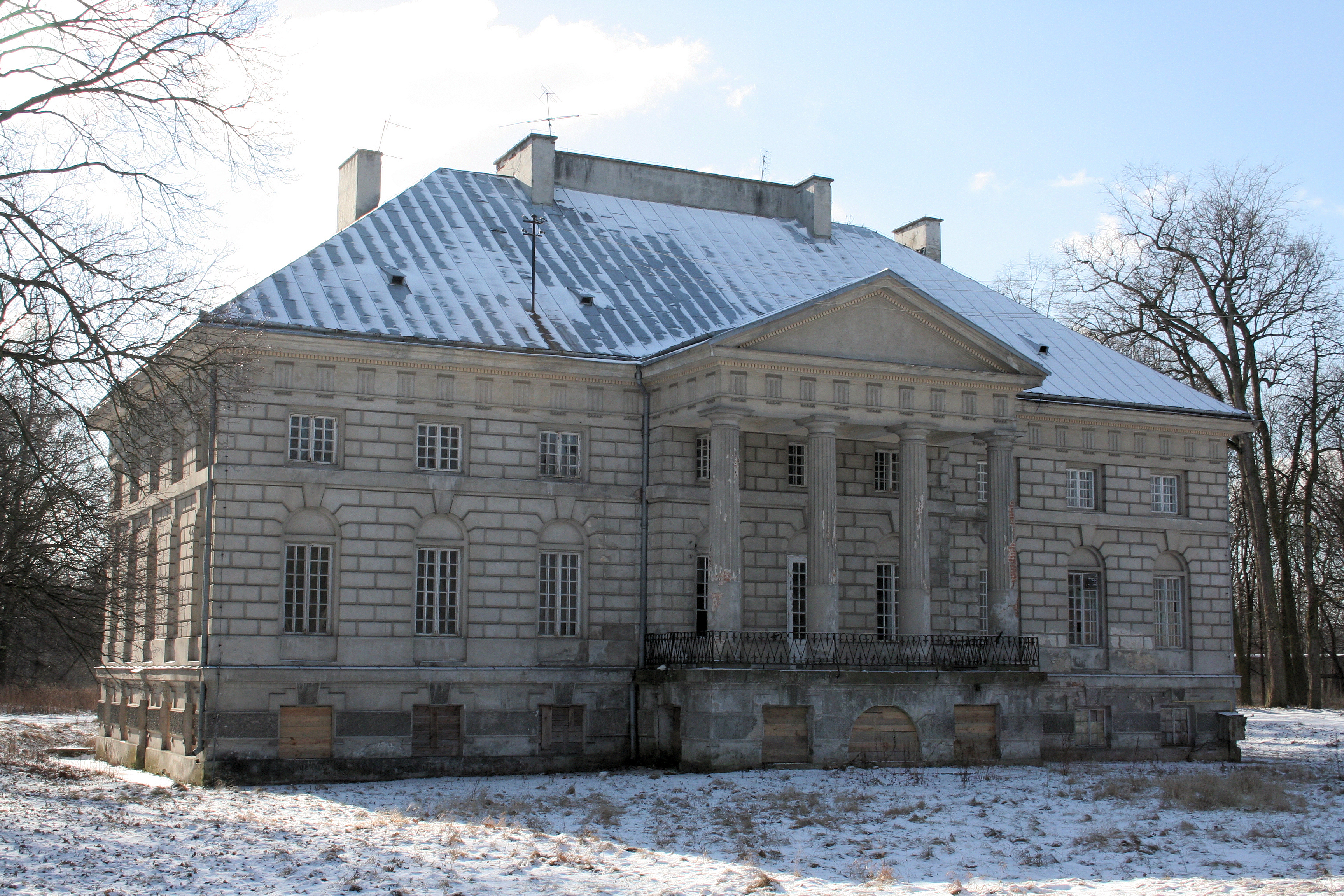 Palace in Młochów